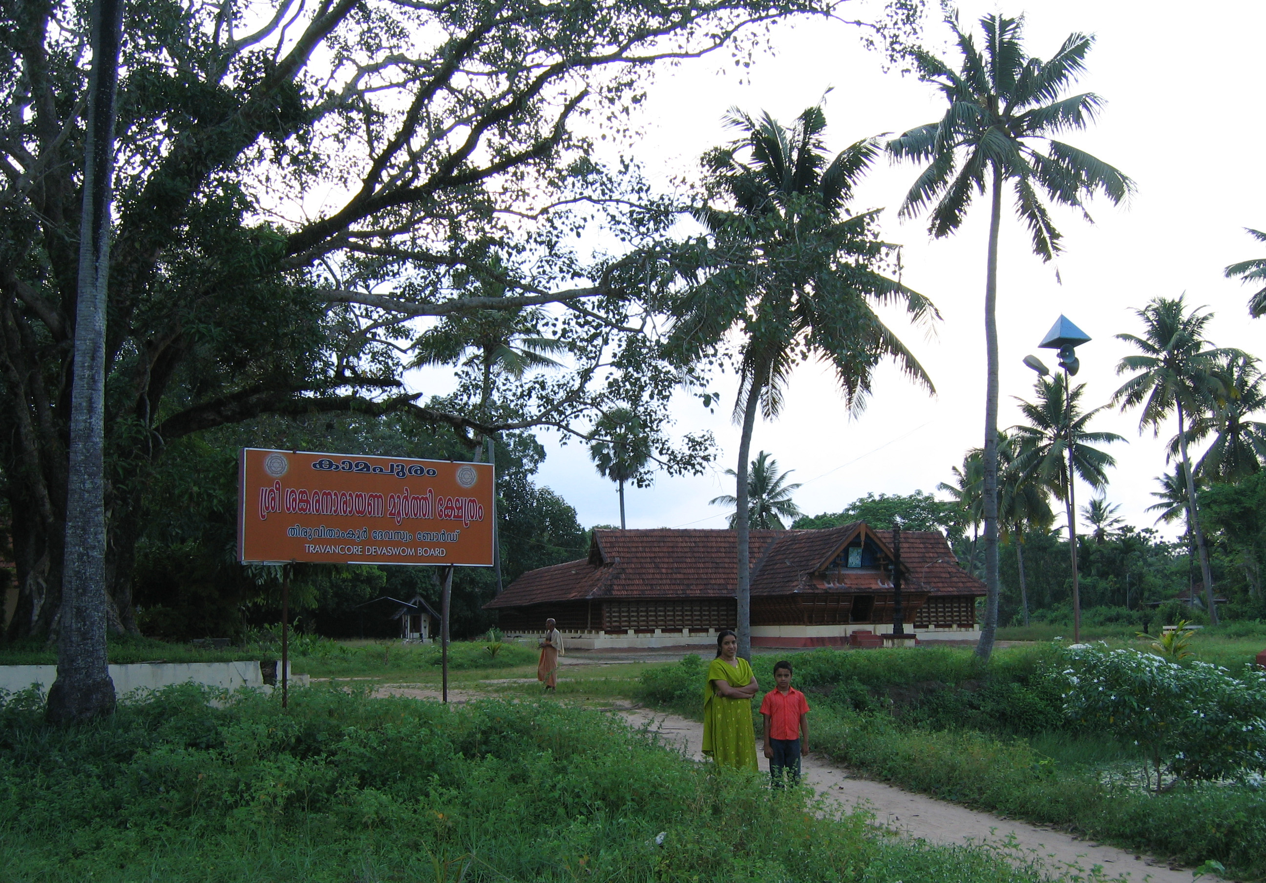 Kamapuram Sri Sankaranarayana moorthi temple, Alappuzha